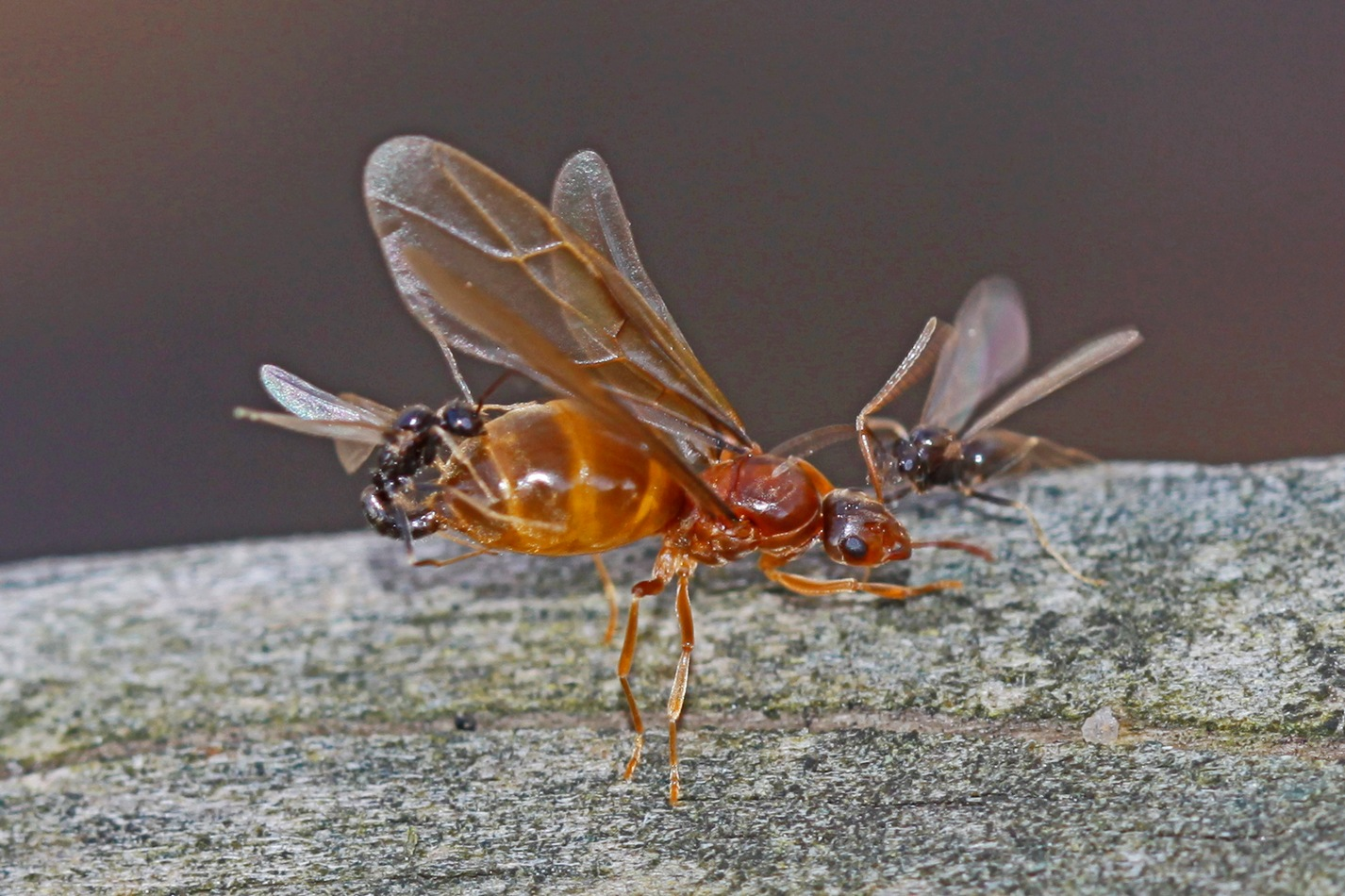 False Honey Ant - Prenolepis imparis, Leesylvania State Park, Virginia